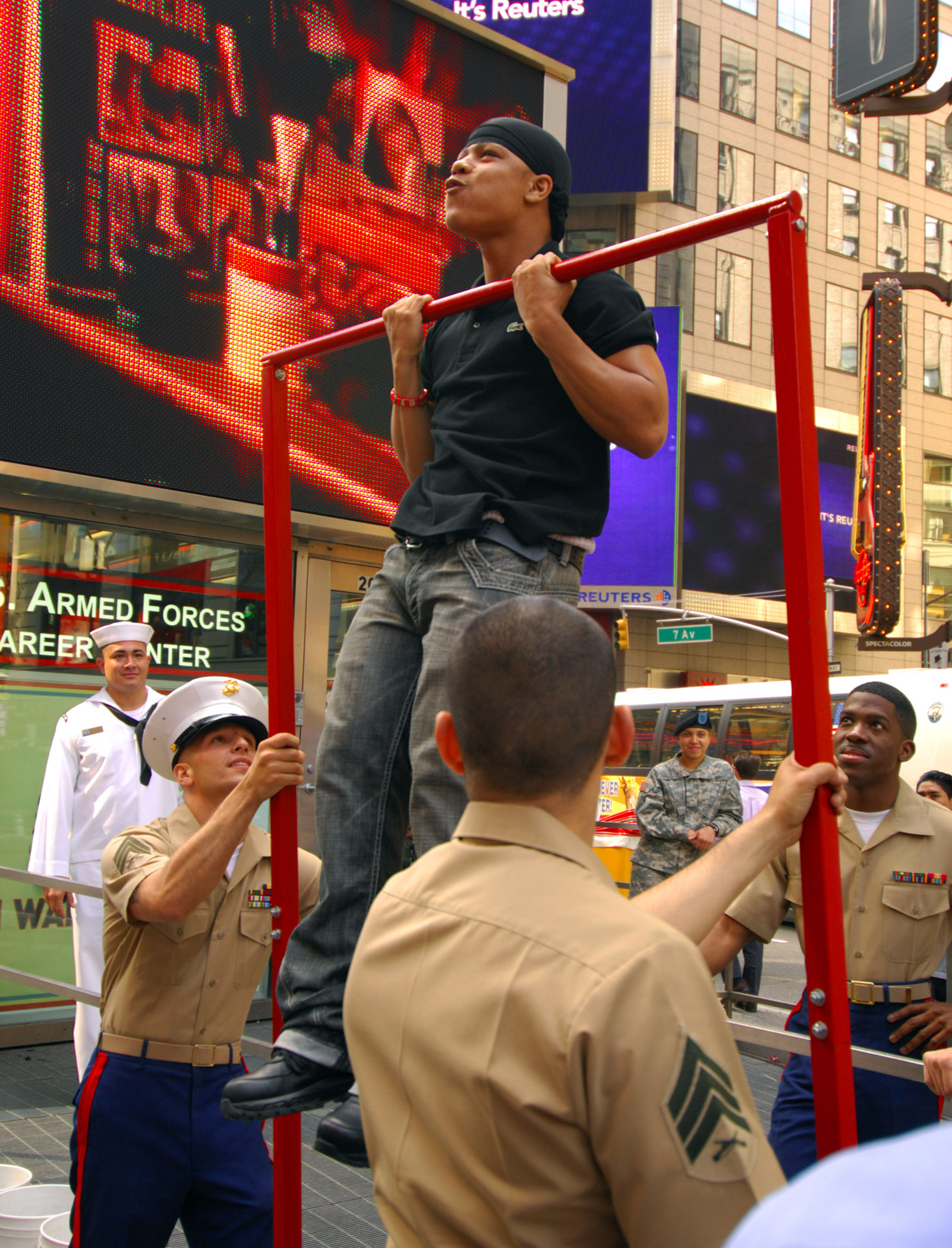 NEW YORK (May 23, 2007) - Military personnel assigned to U.S. Armed Forces Career Center on Times Square New York, watch as a New Yorker does pull-ups during an event where people from the city signed up to show off their physical abilities. The 20th annual Fleet Week New York is an opportunity for New Yorkers to meet Sailors, Marines and Coast Guardsmen and thank them for their service. Fleet Week honors the service and sacrifice of all Sailors, Marines and Coast Guardsmen, as well as the city of New York, in the global war on terrorism. U.S. Navy photo by Mass Communication Specialist 3rd Class Ricardo J. Reyes (RELEASED)